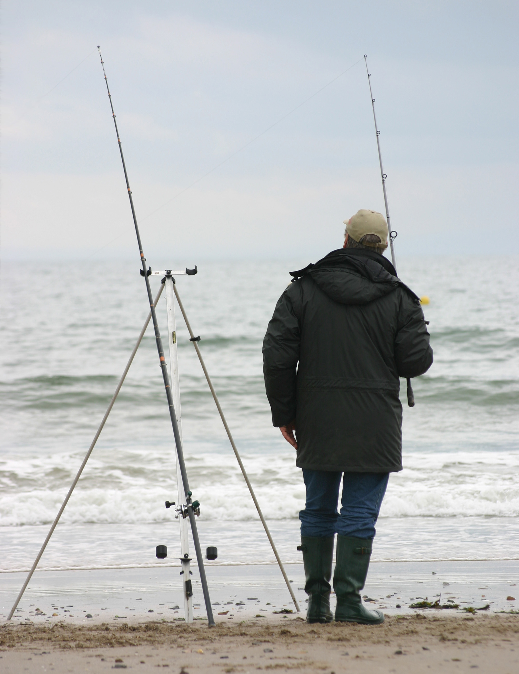 Sea fishing off the south coast of Wales.